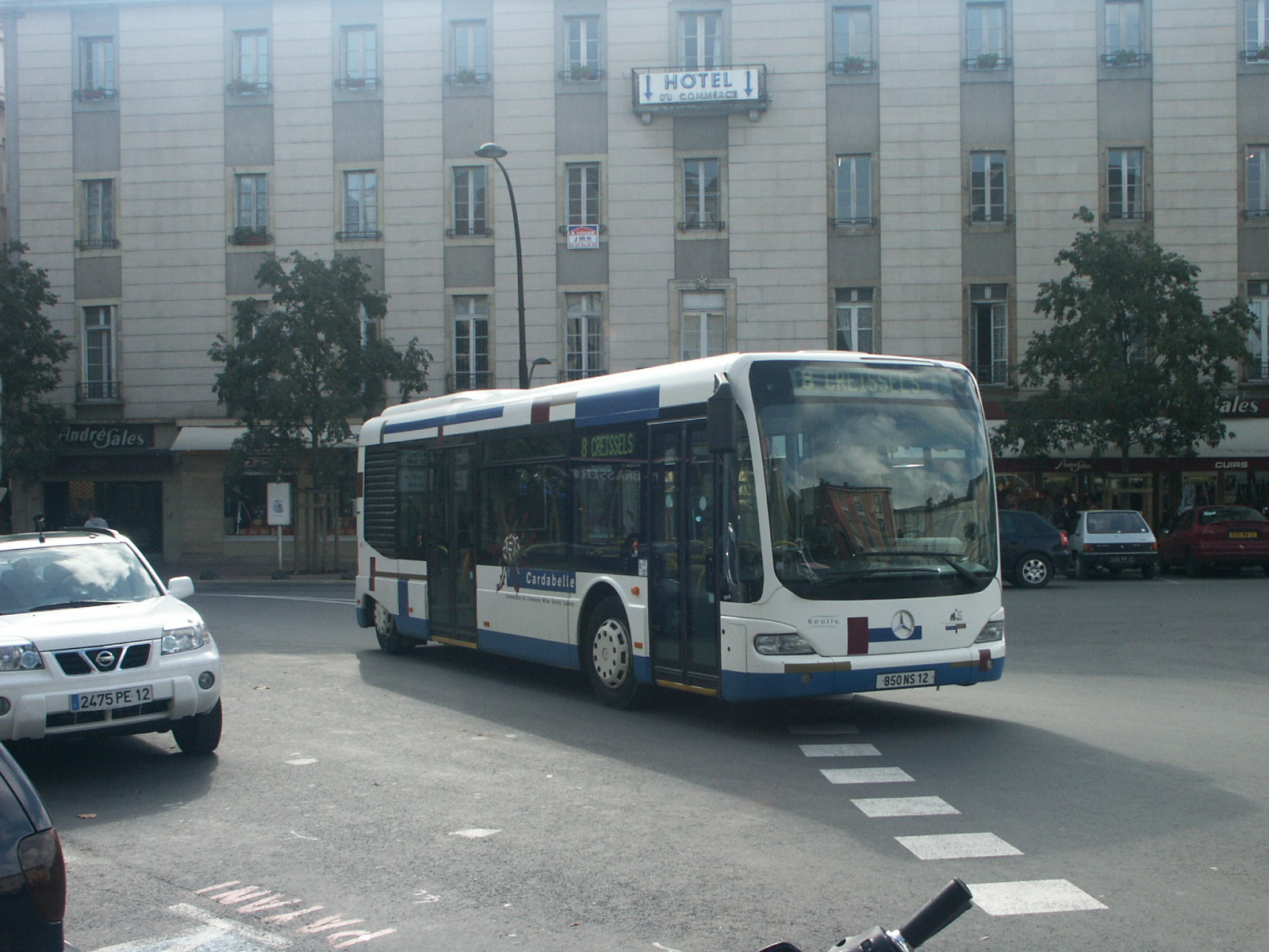 A Mercedes-Benz Cito (Keolis Aveyron), carrying out the line 8 of the bus network Cardabelle — Mandarous, Millau↔Creissels — and running in the city centre (Nantes, France) on October 17, 2005.